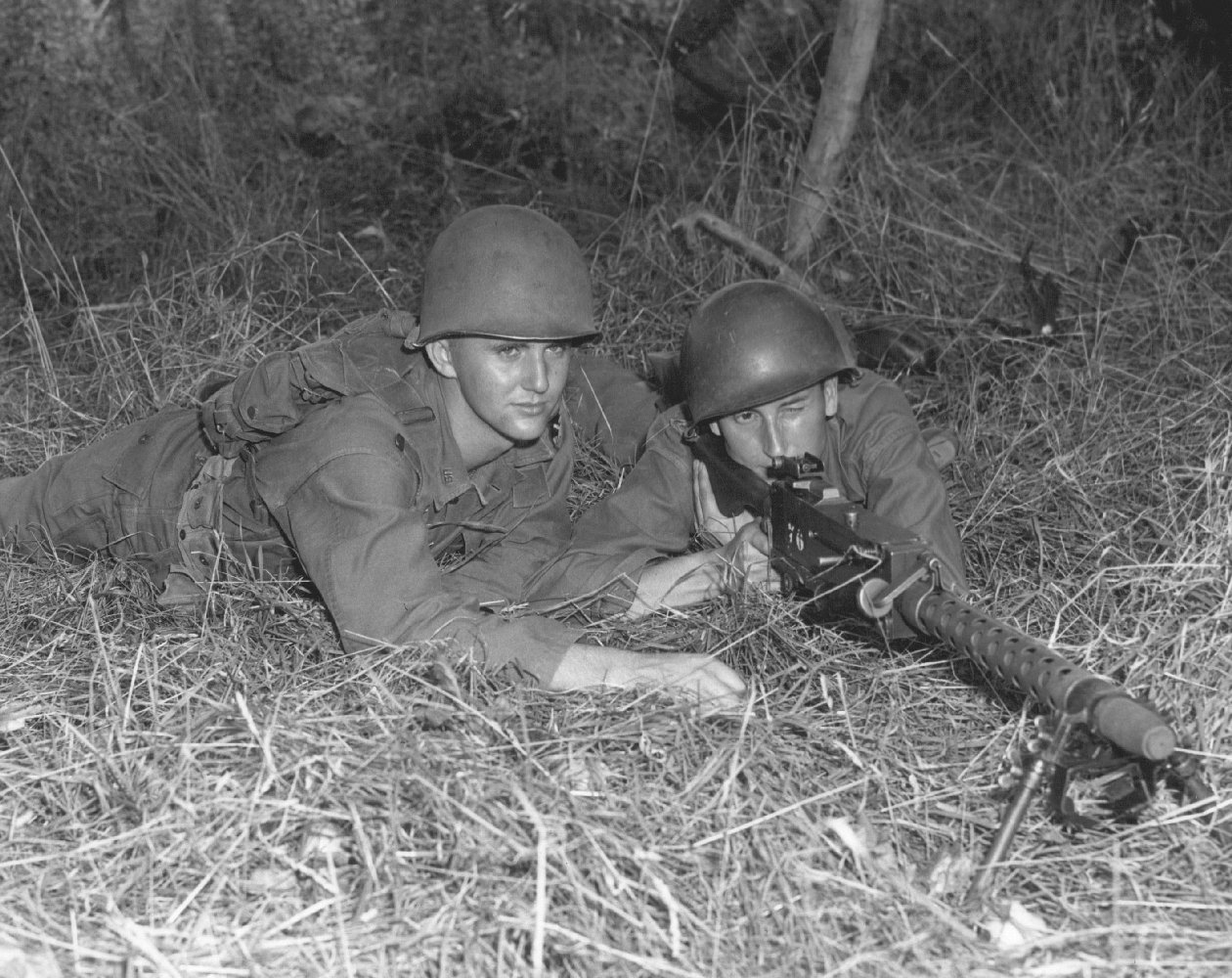 U.S. (Jerry Harrison) and W. German cadets training together - firing machine gun, W. Germany, 1960.